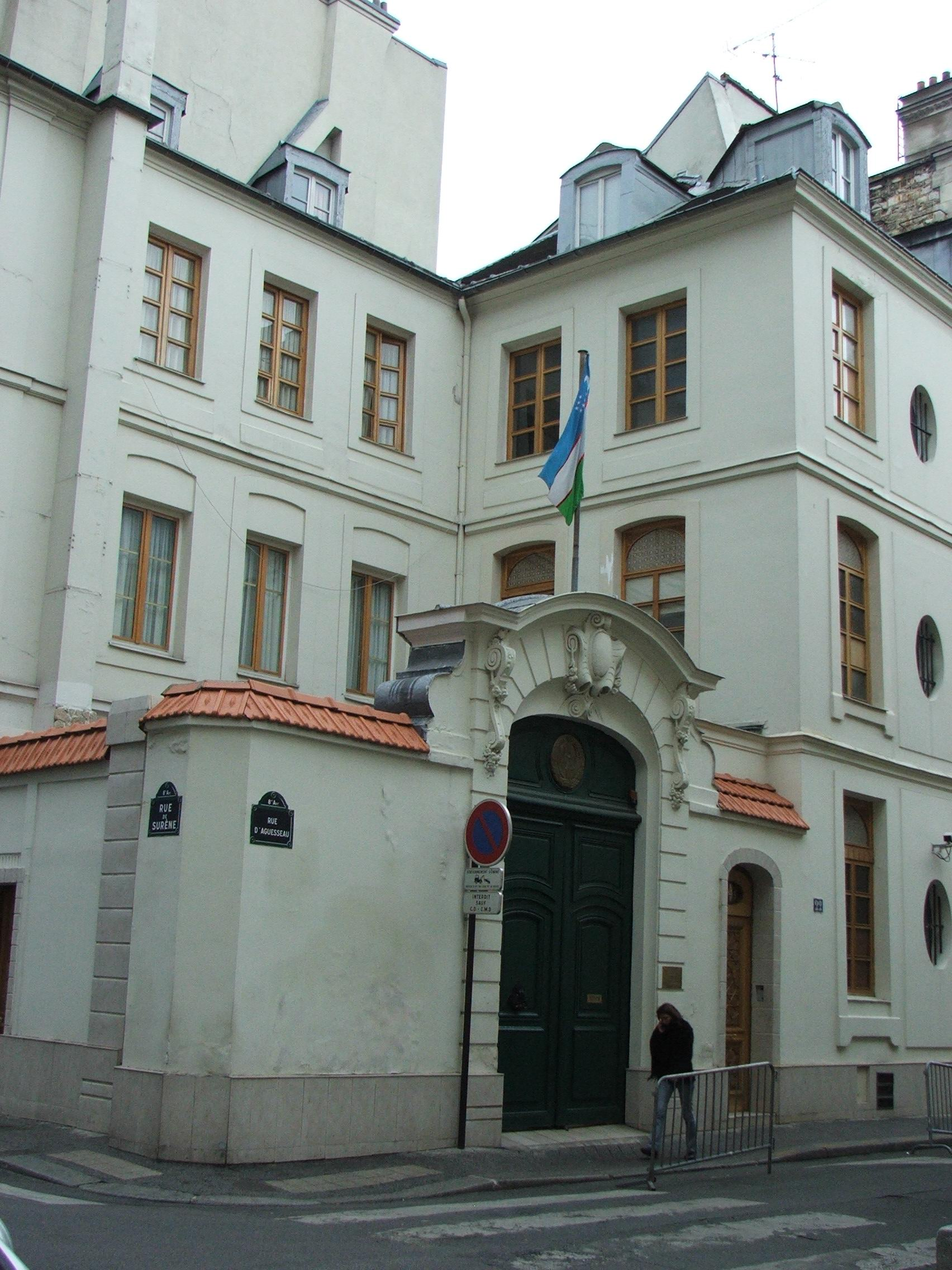 Embassy of Uzbekistan in Paris - France.